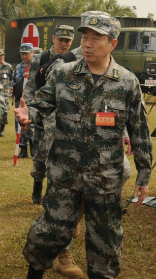 Gen. Vincent K. Brooks, Commanding General of U.S. Army Pacific tours the practical field exchange (PFE) area with Gen. Xu Fenlin, commanding general of the People’s Liberation Army (PLA) Guangzhou Military Region during the 2015 Pacific Resilience Disaster Management Exchange (DME) on Jan. 18 at Macun Barrack in Haikou, Hainan Province, People’s Republic of China. The DME is designed to maximize hands-on, side-by-side interaction with the PLA on Humanitarian Assistance (HA) and Disaster Relief (DR) operations. This is the 10th iteration of the DME, an annual USARPAC Security Cooperation Event with the PLA. This long-established exchange underscores the commitment of both the U.S. and the PRC to a comprehensive and strong military-to-military relationship in order to address security cooperation and HA/DR challenges across the region (U.S. Army photo by Maj. Lindsey Elder, USARPAC PAO).